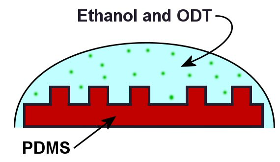 This graphic created by Wesley Allen; created May 5, 2004 [1]